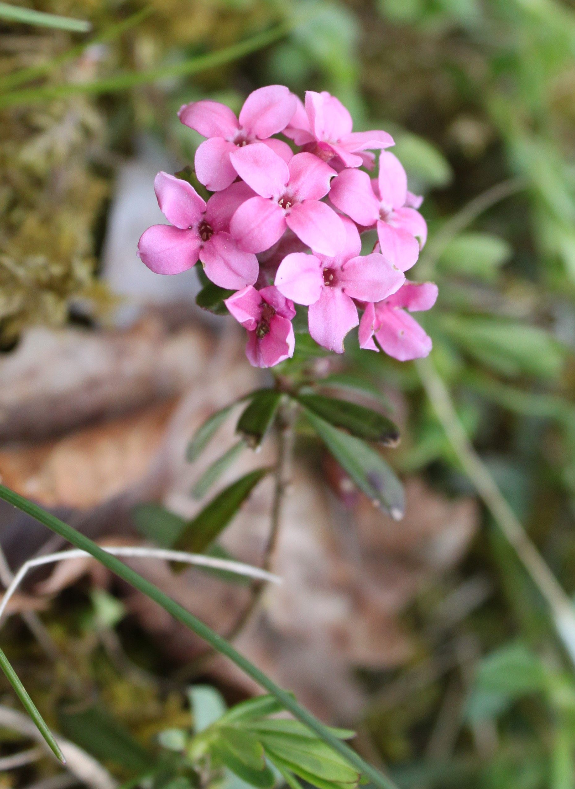 Daphne cneorum - PP Branžovy, Czech Republic